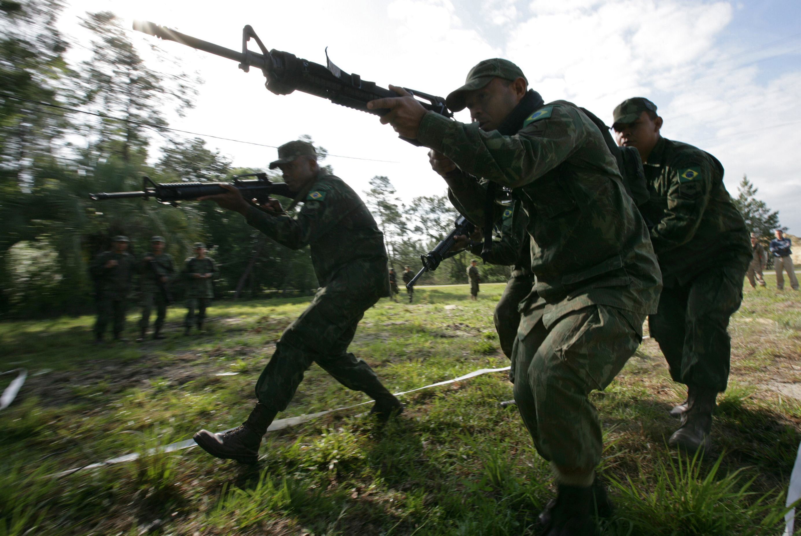 Brazilian marines demonstrate lane training techniques during a Partnership of the Americas 2009 training exercise. Partnership of the Americas, which was executed simultaneously with UNITAS Gold, is an annual U.S. Marine Corps Forces, Southern Command, multi-national company-level combined and joint exercise that focuses on enhancing interoperability between U.S. Marines and partner-nation Marines. Deployed as Special Purpose Marine Air Ground Task Force 24, the U.S. Marines of 24th Marine Regiment, 4th Marine Division, are conducting training with Marines from Brazil, Chile, Colombia, Mexico, Peru, Uruguay, and soldiers from the Royal Canadian army.